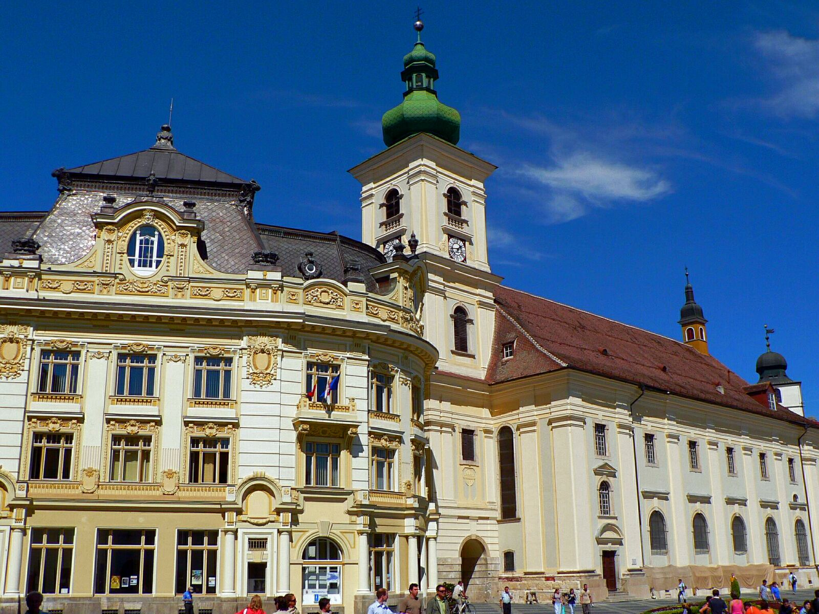 City Hall and Roman Catholic church, Sibiu, Romania